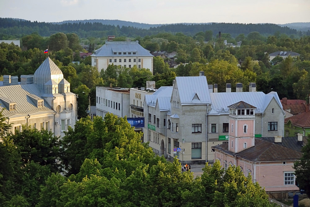 The Town Of Sortavala, Republic Of Karelia. Panoramic view from the roof of a 9-floor building on the Karelian street. The building of the former fire tower, the home of Leander( Sberbank) , the home Siitonen (Administration) and public schools (school # 1).